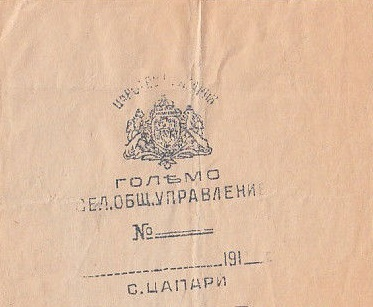 Capari Bulgarian Municipality Logo